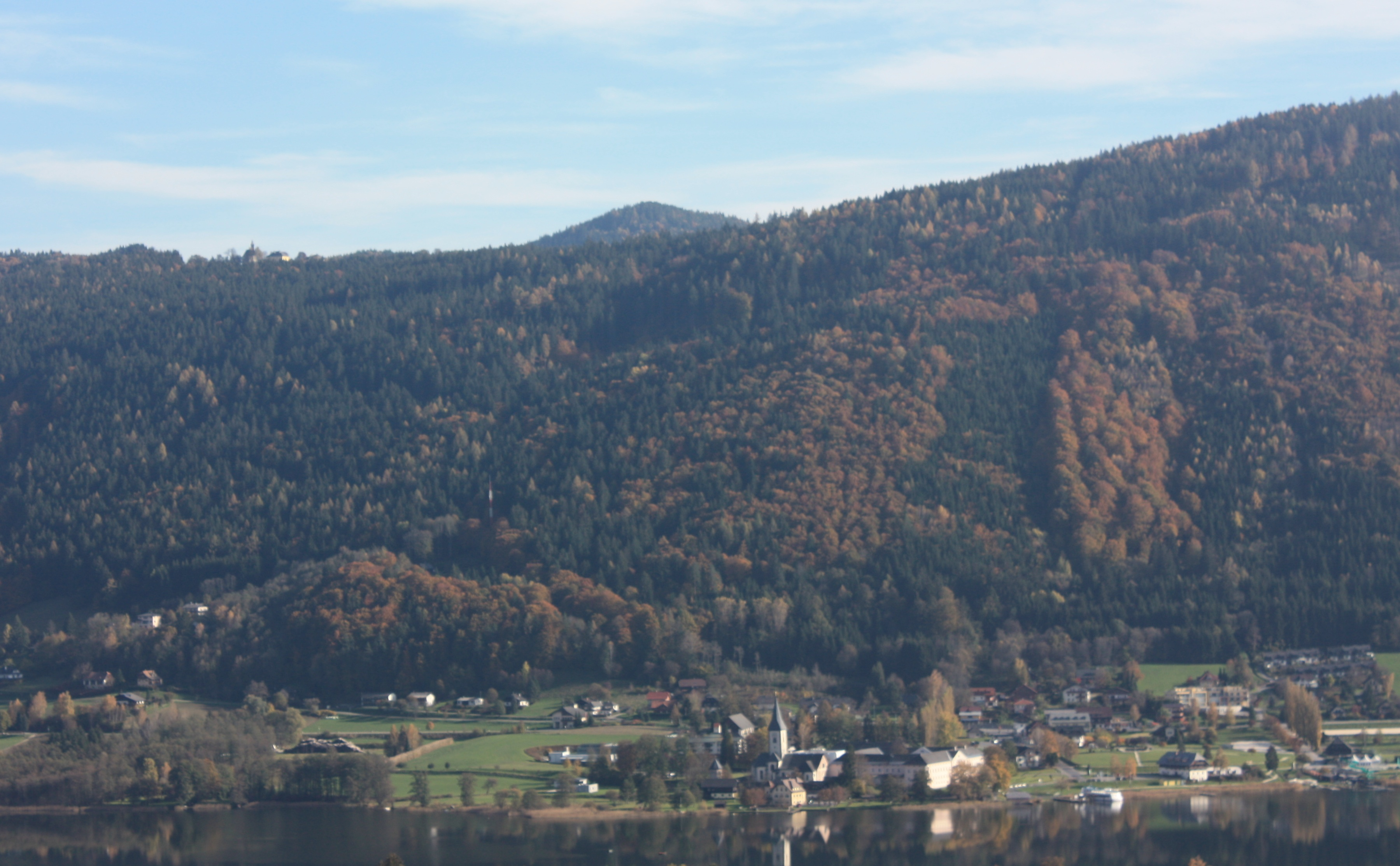 View form Bodensdort to Ossiach Community: Ossiach